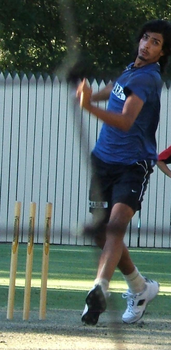 Ishant Sharma at Adelaide Oval